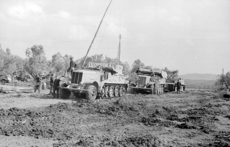 Information added by Wikimedia users.Tiger of Schwere Panzer-Abteilung 508 (only Tiger unit that was near Nettuno at this time)[1]